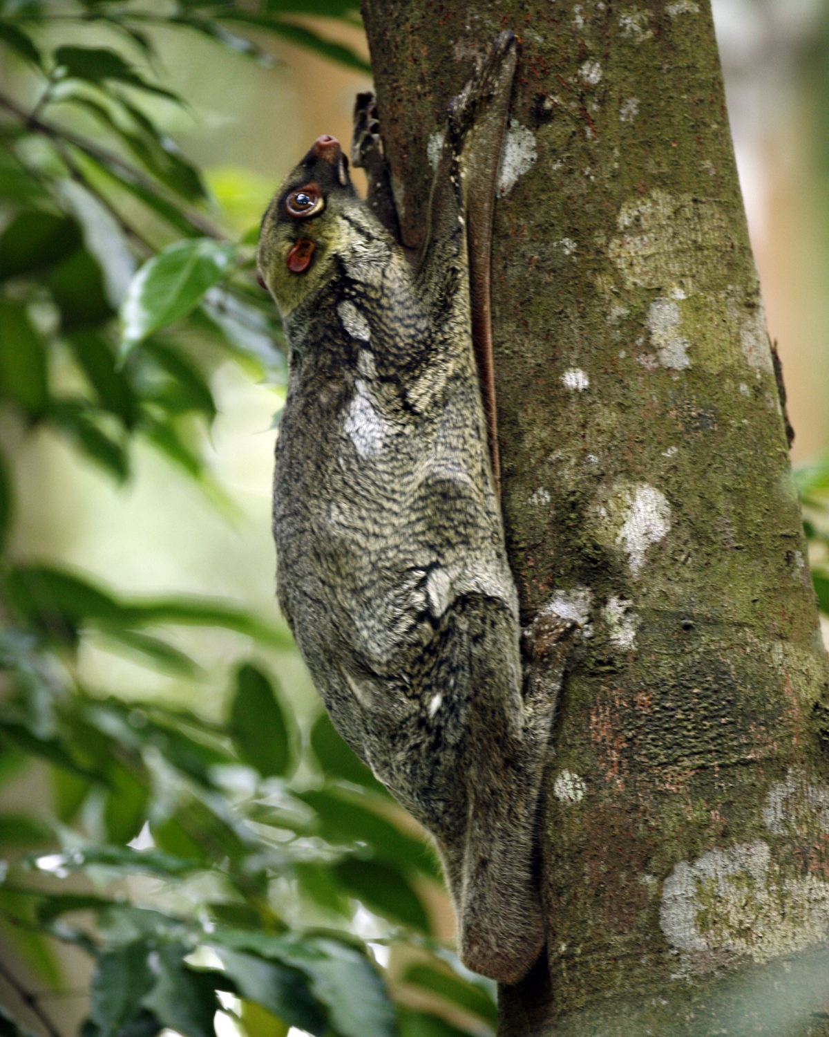 A colugo (Galeopterus variegatus, adult female), seen in the Central Catchment Nature Reserve, Singapore. Order: DERMOPTERA Family: Cynocephalidae Species: Galeopterus (or Cynocephalus) variegatus Colugos are arboreal gliding mammals found in Southeast Asia. There are just two species each in its own genus, which makes up the entire family Cynocephalidae and order Dermoptera. Though they are the most capable of all mammal gliders, they cannot actually fly. They are also known as cobegos or as flying lemurs (misleadingly, since they are not lemurs and cannot fly).